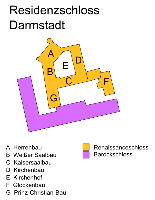 Floorplan of Darmstadt palace